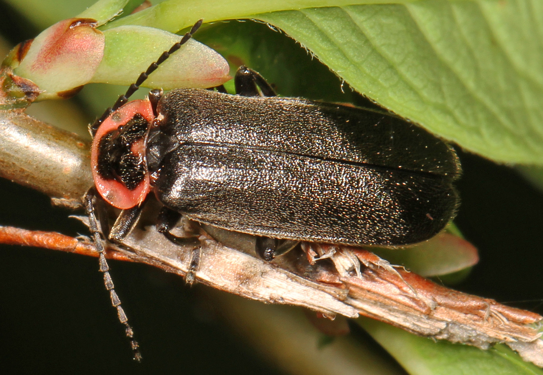 Soldier Beetle - Atalantycha neglecta, Carderock Park, Carderock, Maryland. Montgomery County 4/23/2014 see bugguide